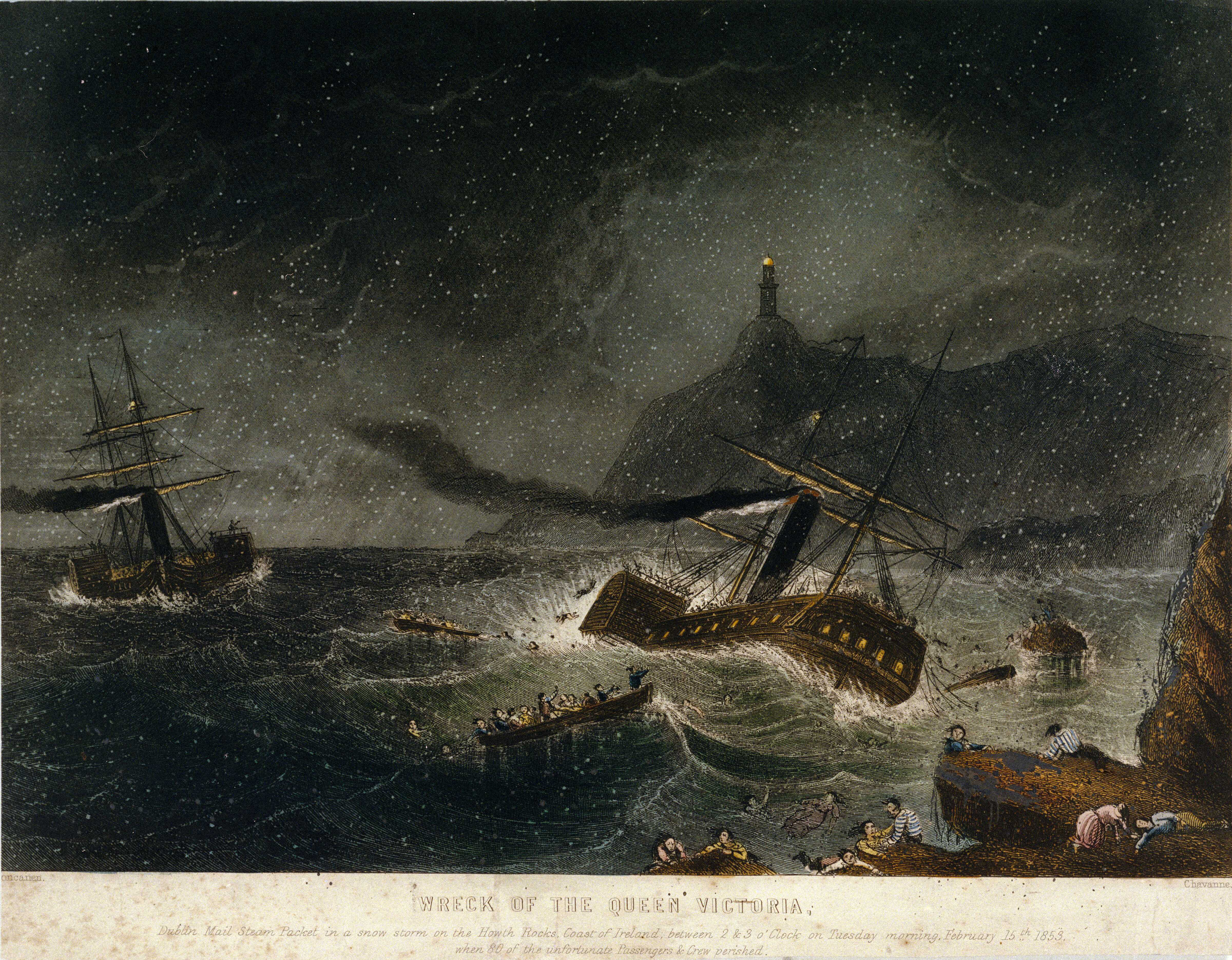 Wreck of the Queen Victoria Dublin Mail Steam Packet in a snowstorm on the Howth Rocks, Coast of Ireland, between 2 & 3 o'clock on Tuesday Morning, February 15th 1853, when 80 of the unfortunate Passengers & Crew perished The paddle steamer coming to the rescue is the Roscommon, chartered by the Chester and Holyhead Railway Company which was proceeding from Dublin to Holyhead at the time. Newspaper clipping: Hand-coloured.; Technique includes etching. Mount: 225 mm x 290 mm